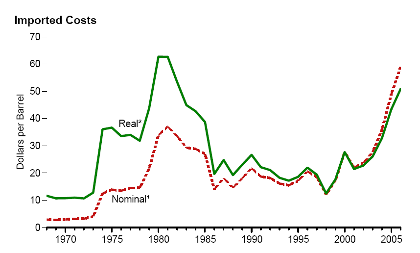 Imported crude oil refiner acquisition costs, 1968-2006. In chained (2000) dollars, calculated by using gross domestic product implicit price deflators.